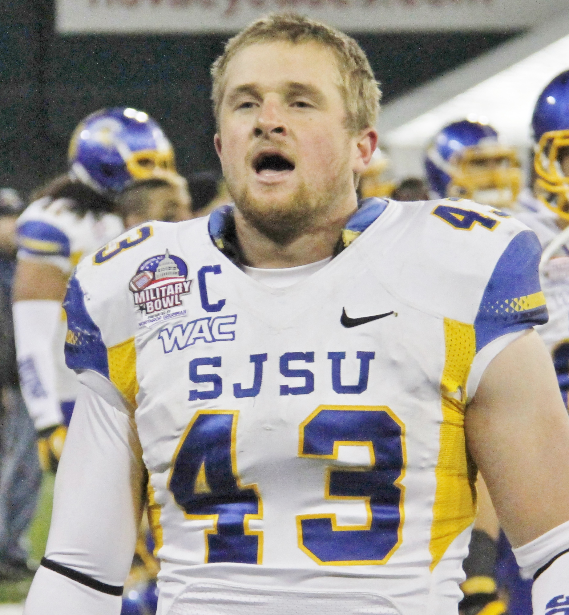 San Jose State defensive end Travis Johnson celebrates after San Jose State won the 2012 Military Bowl.